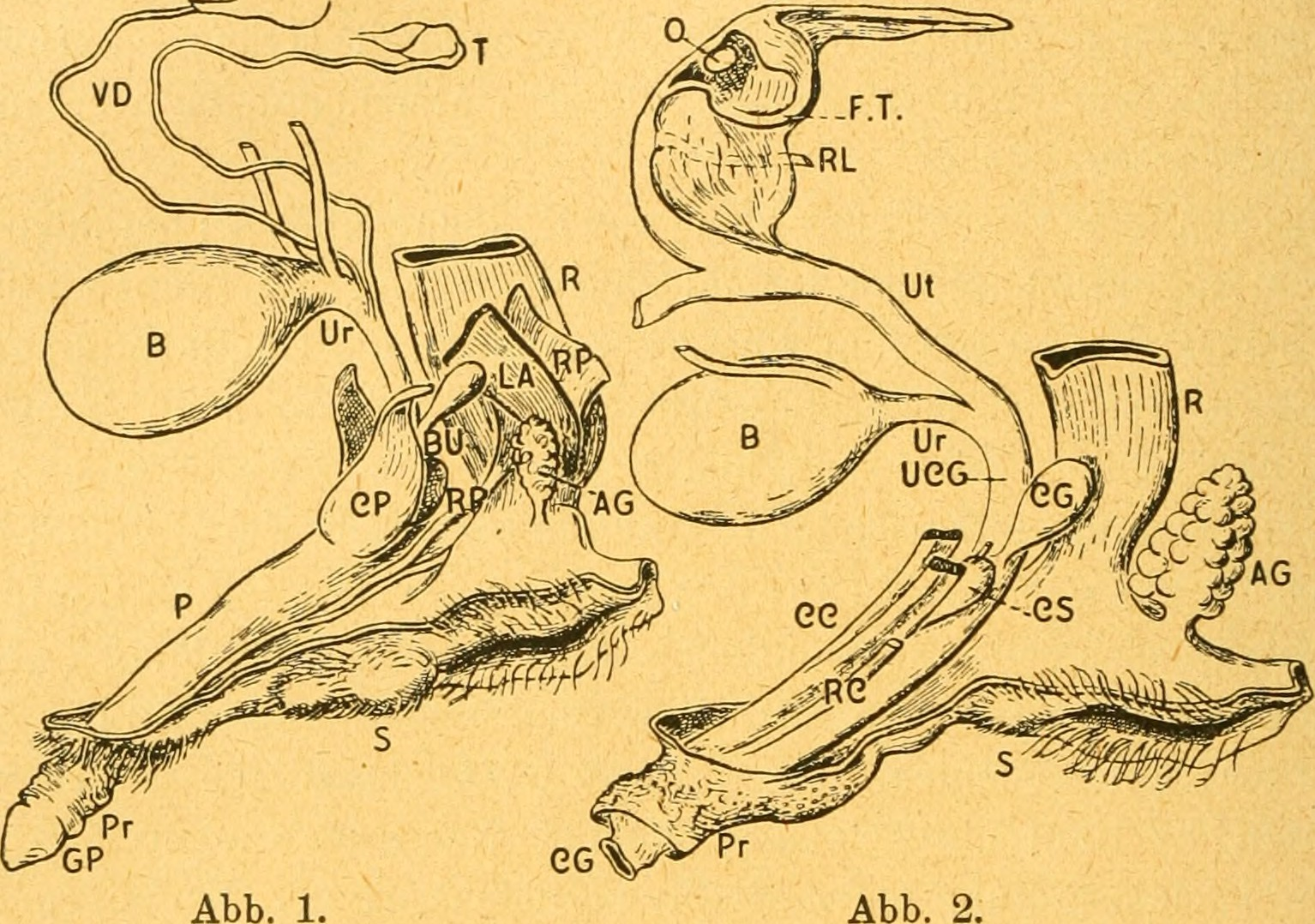 Title: Anatomischer Anzeiger Year: 1922 (1920s) Authors: Anatomische Gesellschaft Subjects: Anatomy, Comparative; Anatomy, Comparative Publisher: Jena : G. Fischer Text Appearing Before Image: 260 lang, auf ihre Erektionsfähigkeit weist das dem männlichen Penis ähnlich stark entwickelte Corpus cavernosum hin. Der Canalis uro- genitalis läuft als erweiterungsfähiges Rohr mit lockerer Wand am Cütoriskörper zum Becken ebenso, wie die männliche Harnröhre. Beim Vergleich mit den männlichen Geschlechtsorganen findet man, daß 1. das äußere Blatt der Vorhaut beim Männchen behaart, beim Weibchen haarlos ist; 2. der Durchmesser von Vorhaut und Penis Text Appearing After Image: Abb. 1. Abb. 1. Männliche Geschlechtsorgane der gefleckten Hyäne. (Nach Watson.) Abb. 2. Weibliche Geschlechtsorgane der gefleckten Hyäne. AG Glandula analis; B Vesica urinaria; BZ7 Bulbus urethrae; CC Corpus clitoridis; CG Glandula Cowperi; CP Corpus penis; CS Corpus spongiosum; FT tuba Fallopii; GC Glans clitoridis; GP Glans penis; LA Musculus levator ani; O Ovarium; P Penis; Pr Praeputium; R Rectum; RC Musculus retractor clitoridis; RL Ligamentum uteri; RP Musculus retractor penis; S Scrotum; T Testis; NCG Canalis urogenitalis; Ur Urethra; Ut Uterus; Vd Vas deferens. ist beim Männchen etwas größer; 3. die Geschlechtsöffnung ist jedoch beim Weibchen weiter und erweiterungsfähig; 4. die Geschlechts- öffnung wird beim Männchen vom Schwellkörper der Eichel umgeben, dieser Schwellkörper hängt nämlich unmittelbar mit dem Schwellkörper der Harnröhre zusammen, beim Weibchen hingegen erscheint der Ge- schlechtskanal an der Eichel als Anhang und ist vom Schwellkörper der Eichel getrennt. Nach Watson besitzt die weibliche Eichel keine Hornstacheln, im beschriebenen Falle waren jedoch solche vorhanden.